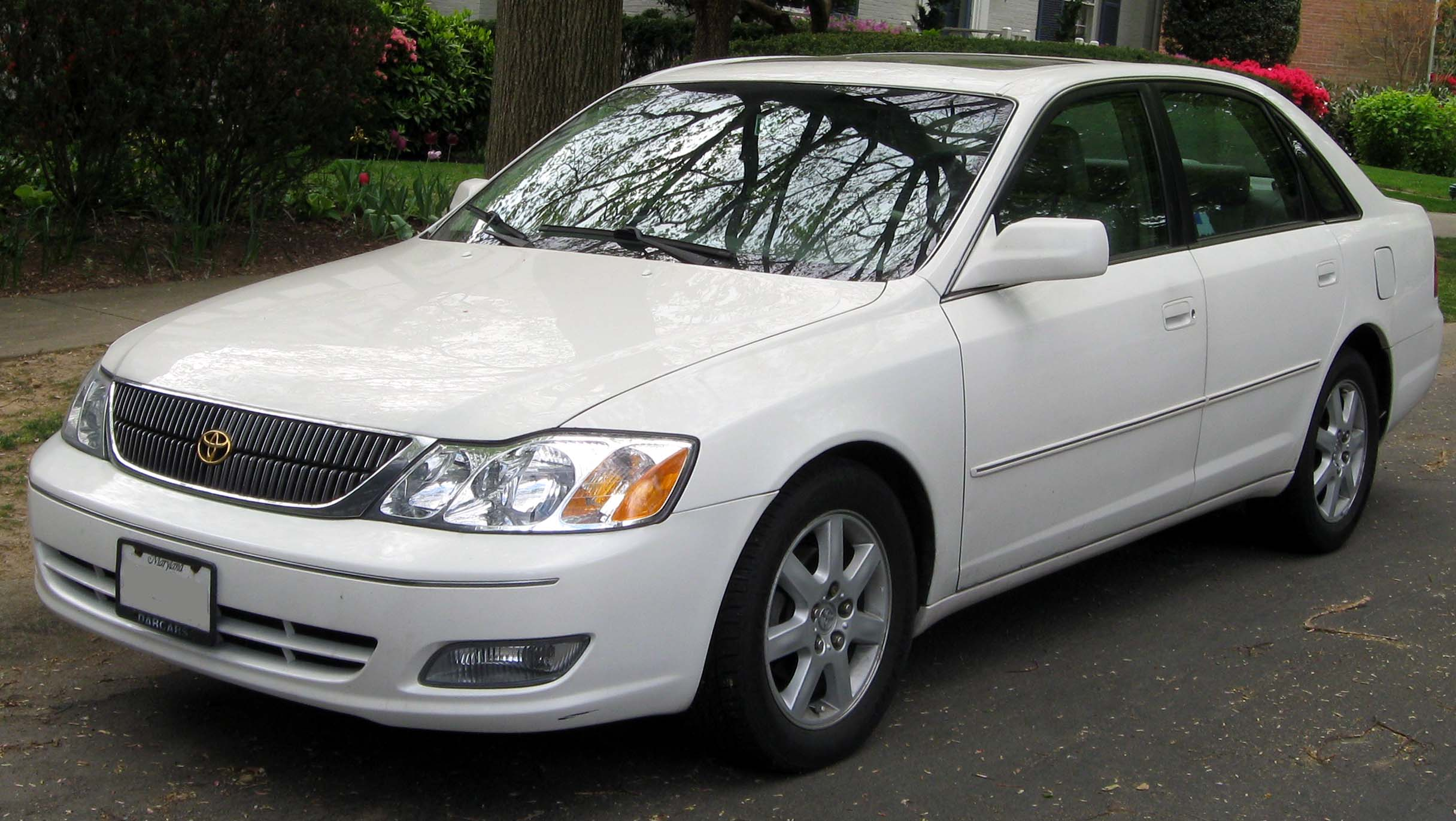 2000-2002 Toyota Avalon photographed in Chevy Chase, Maryland, USA.